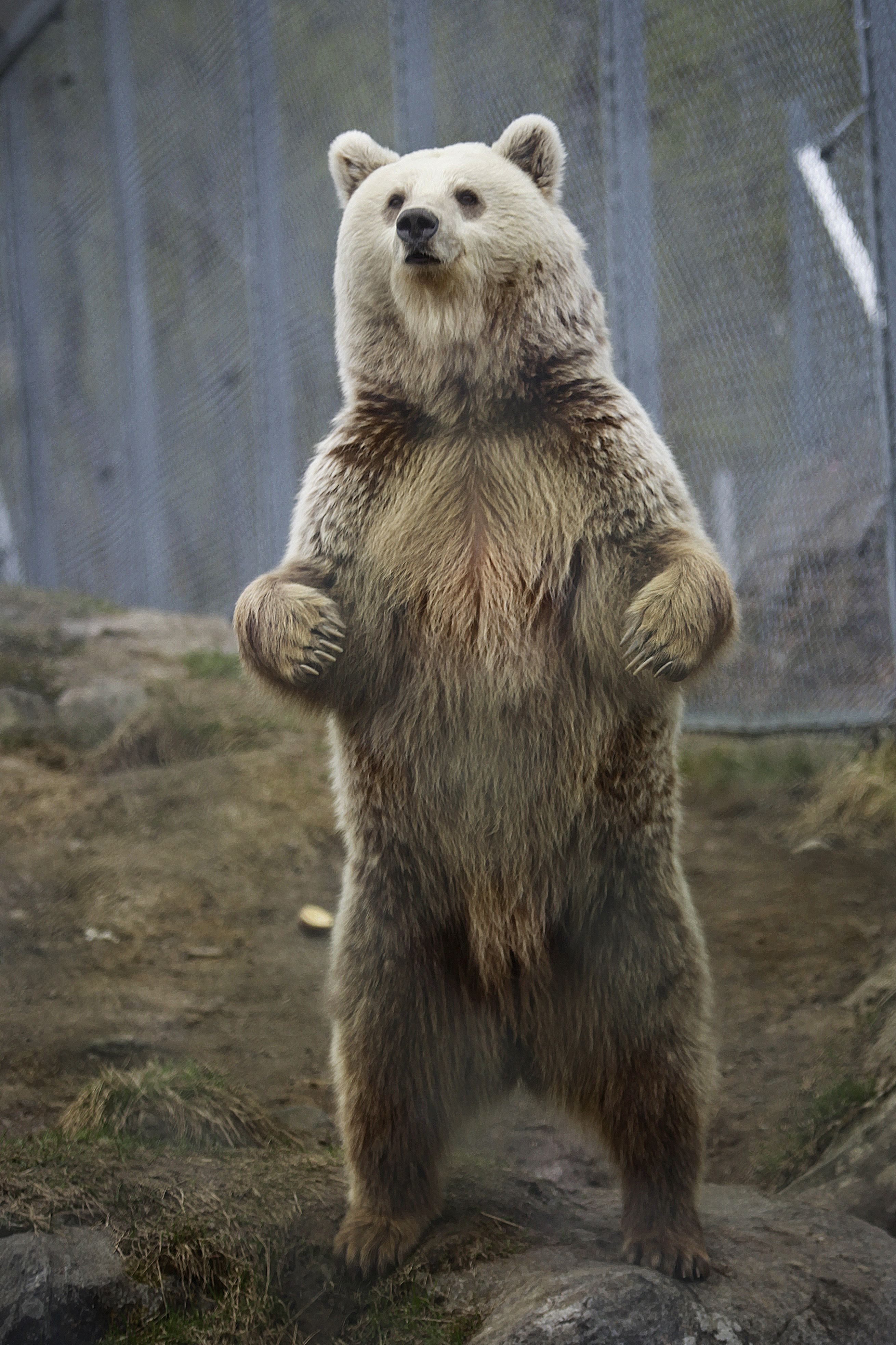 Brown bear, Ursus arctos at Polar Zoo in the municipality of Bardu, Troms County, Norway.